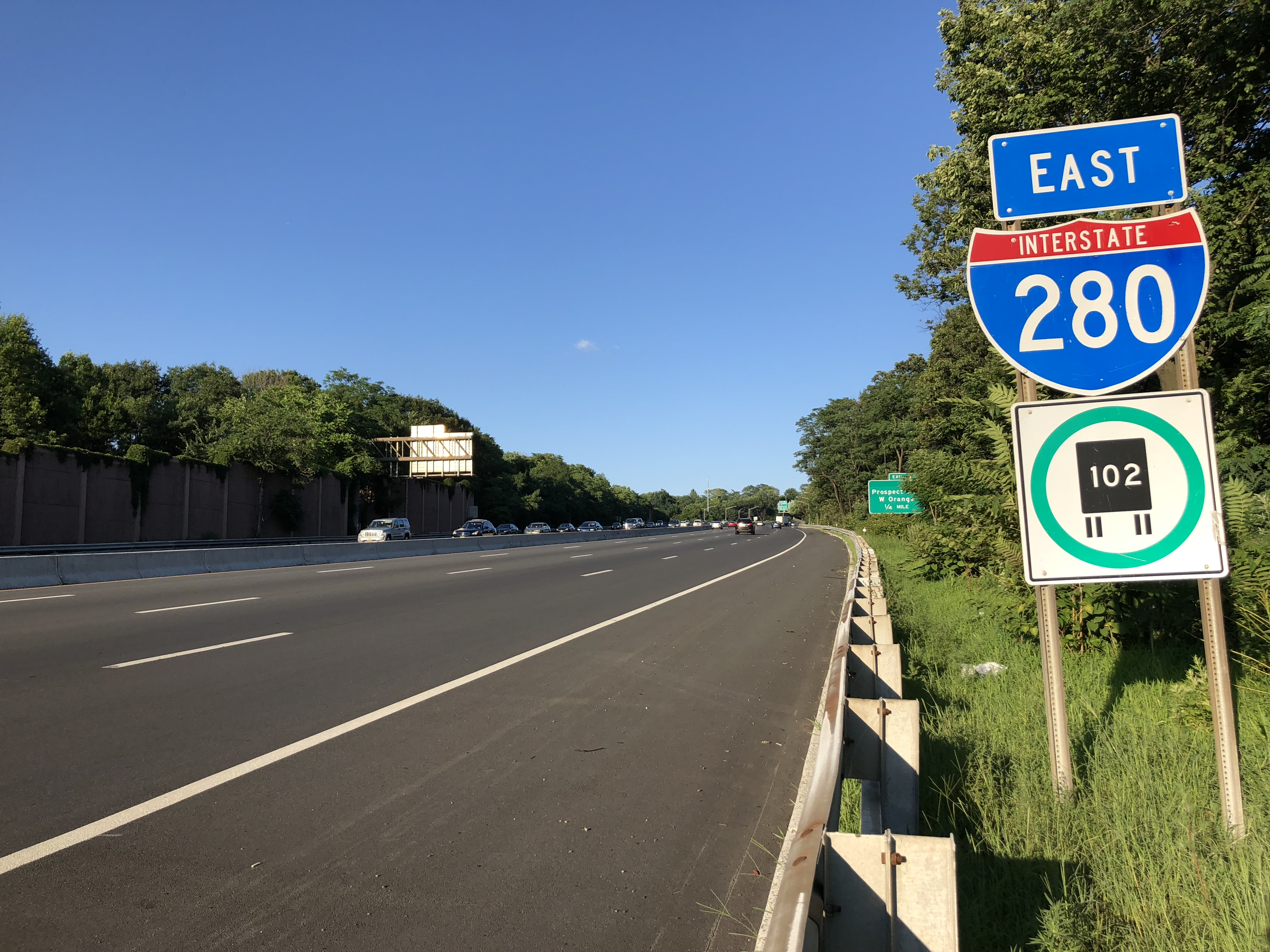 View east along Interstate 280 (Essex Freeway) between Exit 7 and Exit 8A in West Orange Township, Essex County, New Jersey